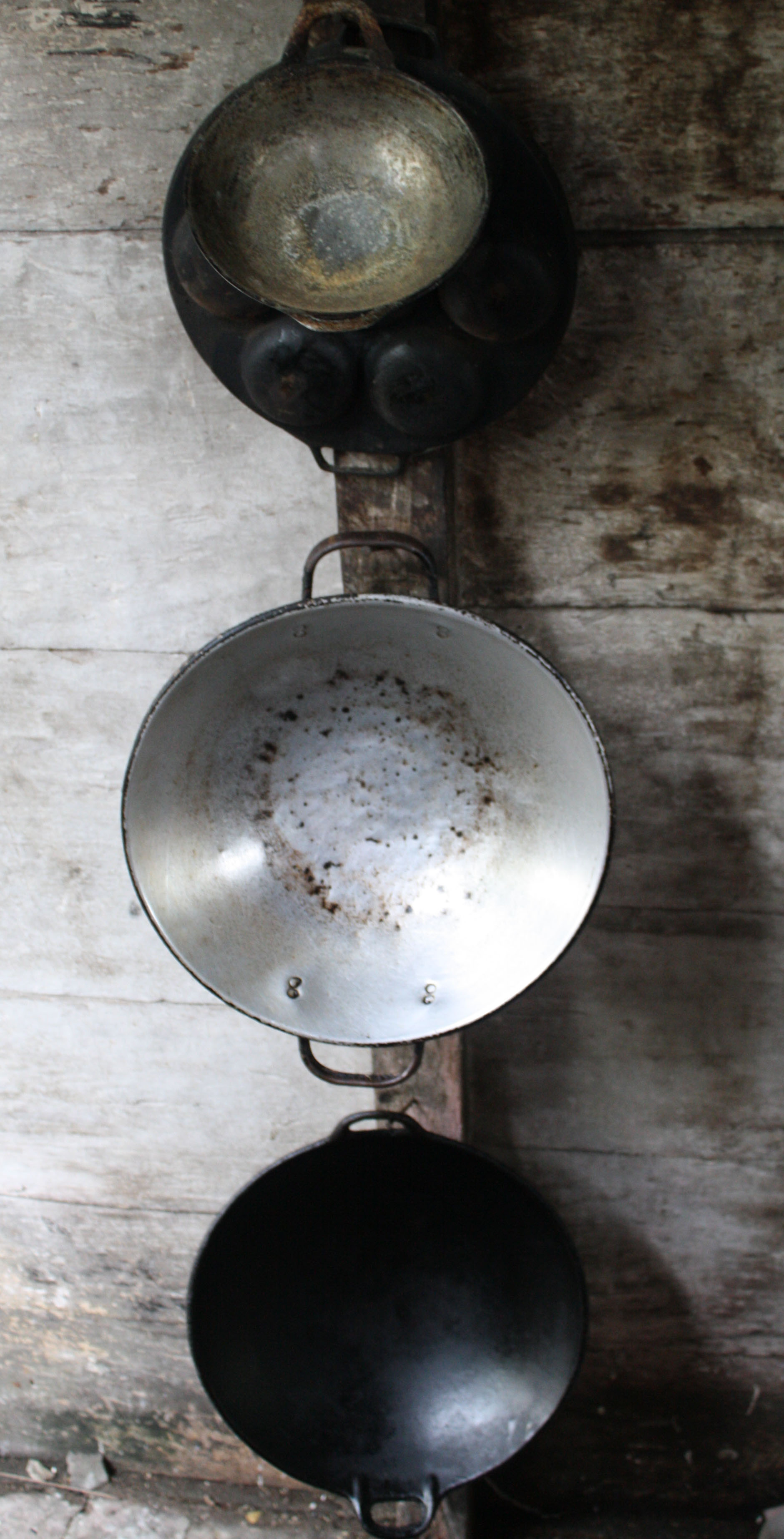 Wajan is Javanese/Indonesian wok